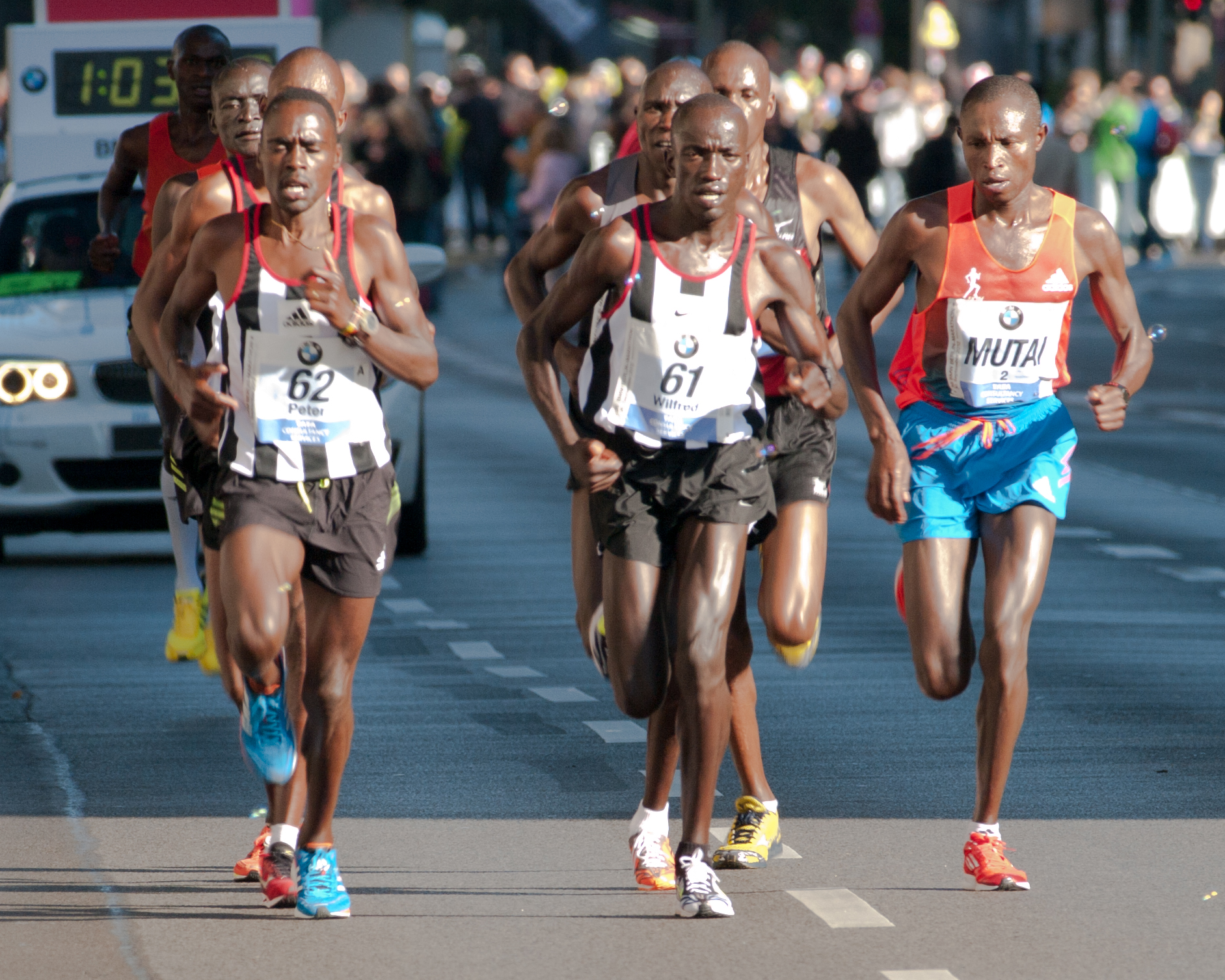 Elite runners at the Berlin Marathon 2012 passing Kleistpark between Kilometers 21 and 22.